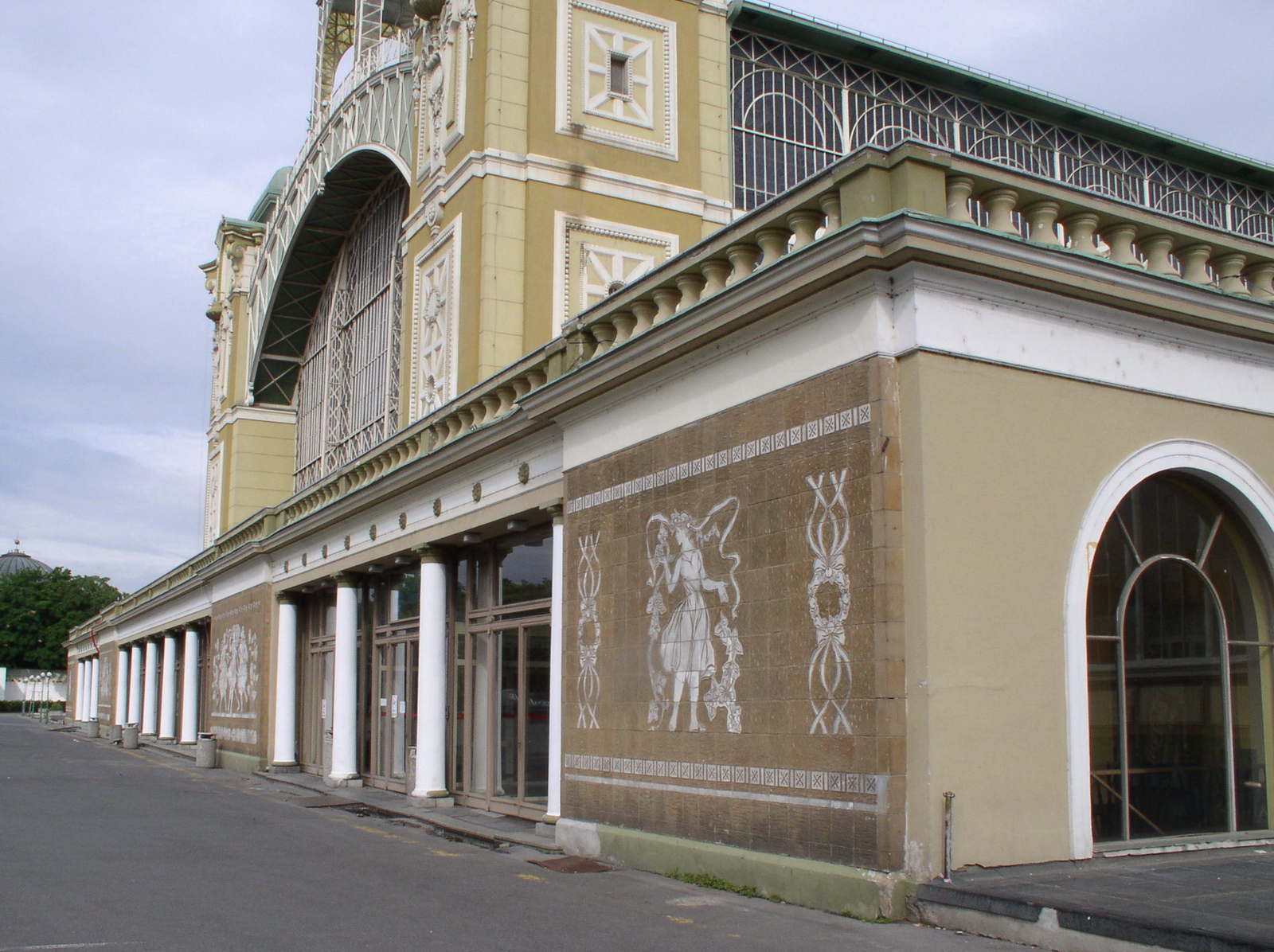 Pavel Smetana (1900 - 1986): Entrance part addition of the Industrial palace, Prague, 1952 - 1954